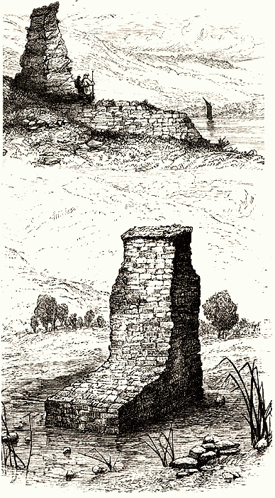 Piers of Trajan's Bridge, upper is Romanian side, below is Serbia. Taken from the book "Roumania, Past and Present", by James Samuelson, London, 1882. Scanned edition by the University of Washington.